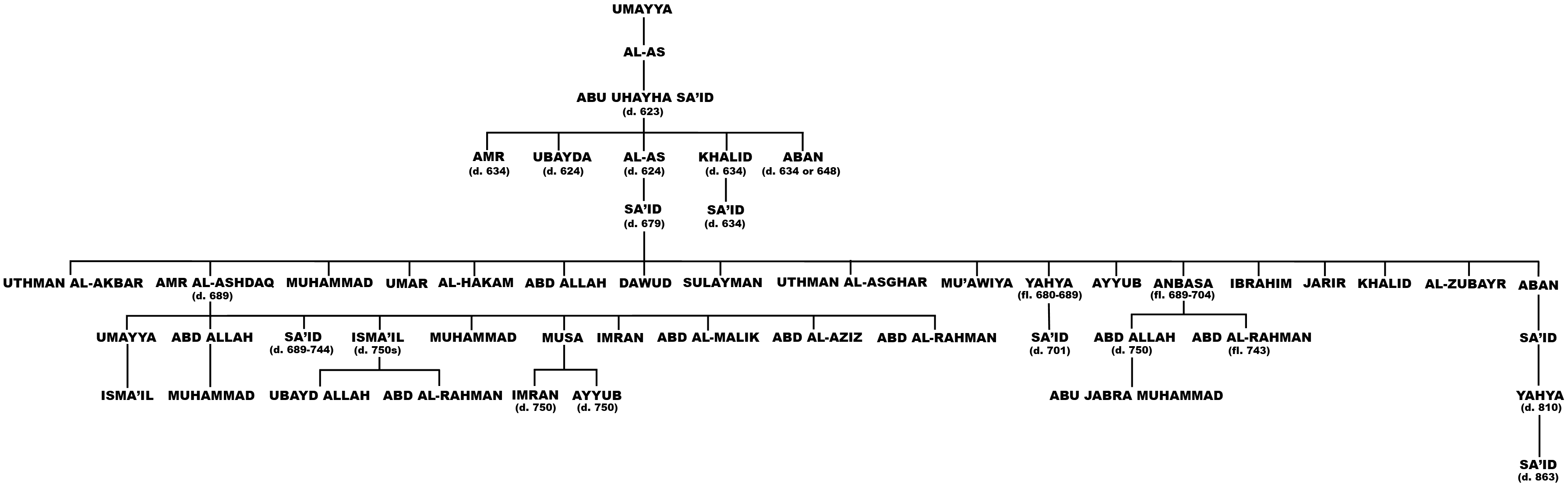 Genealogical tree of the al-As ibn Umayya family, a cadet branch of the Banu Umayya/Umayyad dynasty. Sources: Ahmed, Asad Q. (2010) The Religious Elite of the Early Islamic Ḥijāz: Five Prosopographical Case Studies. Oxford: University of Oxford Linacre College Unit for Prosopographical Research. Elad, Amikam. (2016). The Rebellion of Muḥammad al-Nafs al-Zakiyya in 145/762. Leiden: E. J. Brill Fazier, Rizwi. (2011) The Life of Muhammad: Al-Waqidi's Kitab Al-Maghazi. Abingdon: Routledge. Faris, Nabih Amin (1952) The Book of Idols: Being a Translation from the Arabic of the Kitab al-Isnam by Hishām ibn al-Kalbi. Princeton: Princeton University Press Fishbein, Michael, ed. (1990). The History of al-Ṭabarī, Volume XXI: The Victory of the Marwānids, A.D. 685–693/A.H. 66–73. SUNY Series in Near Eastern Studies. Albany, New York: State University of New York Press